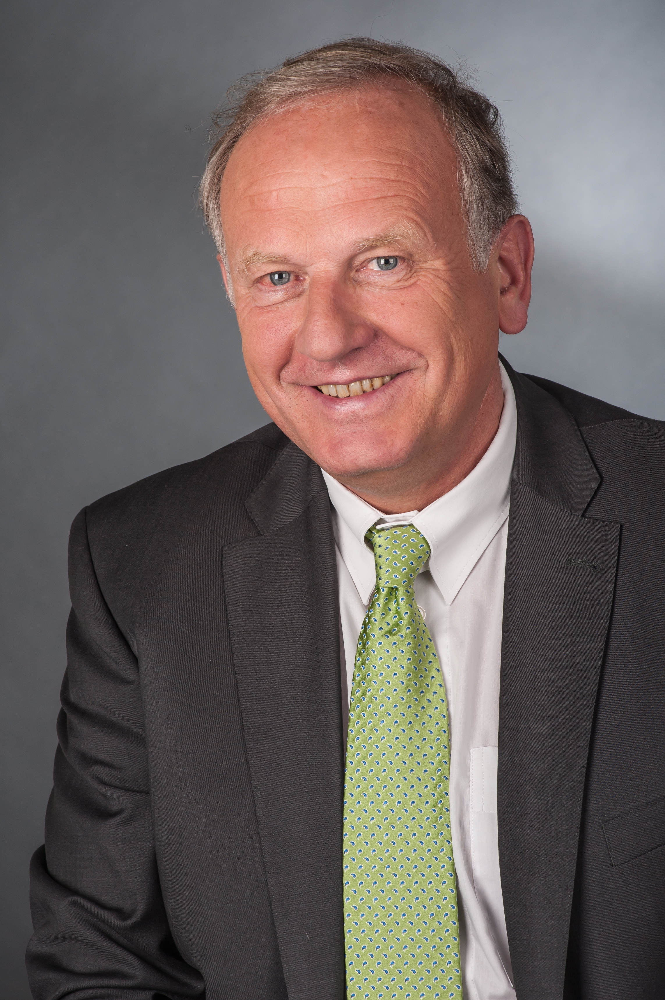 Wikipedia im Landtag – Niedersachsen 17. bis 18. April 2013 in Hannover Personality rights warningAlthough this work is freely licensed or in the public domain, the person(s) shown may have rights that legally restrict certain re-uses unless those depicted consent to such uses. In these cases, a model release or other evidence of consent could protect you from infringement claims.